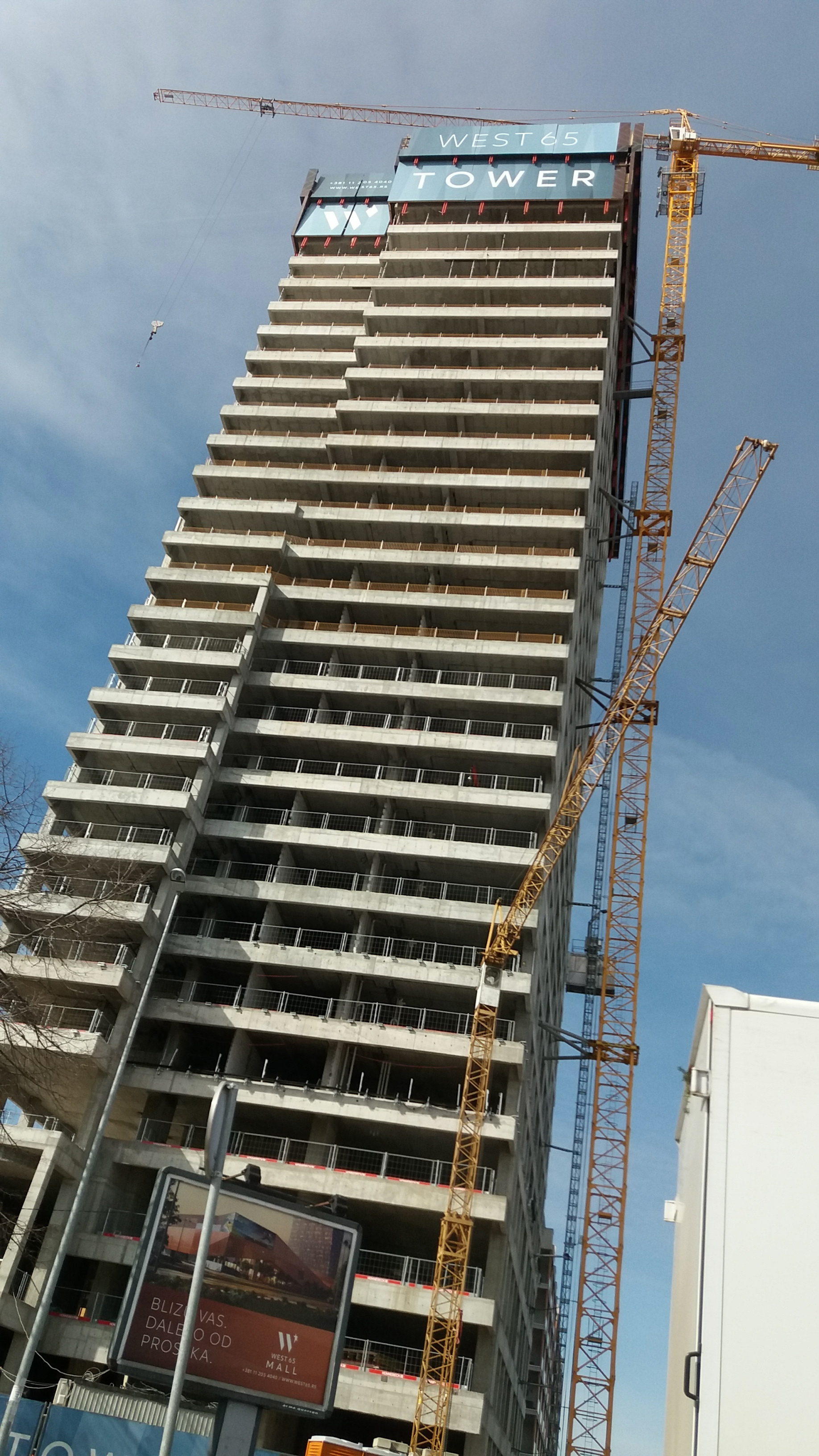 West 65 tower under construction in Belgrade municipality New Belgrade